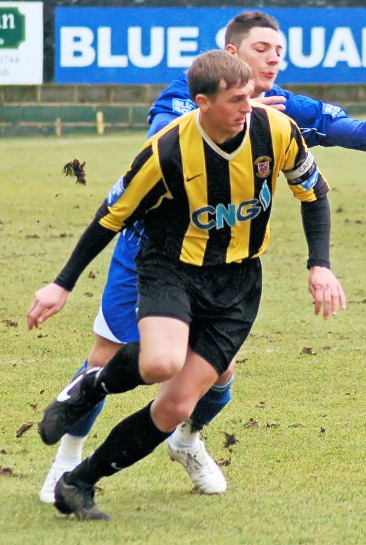 Craig James (black and yellow top) playing for Harroagte Town in 2010